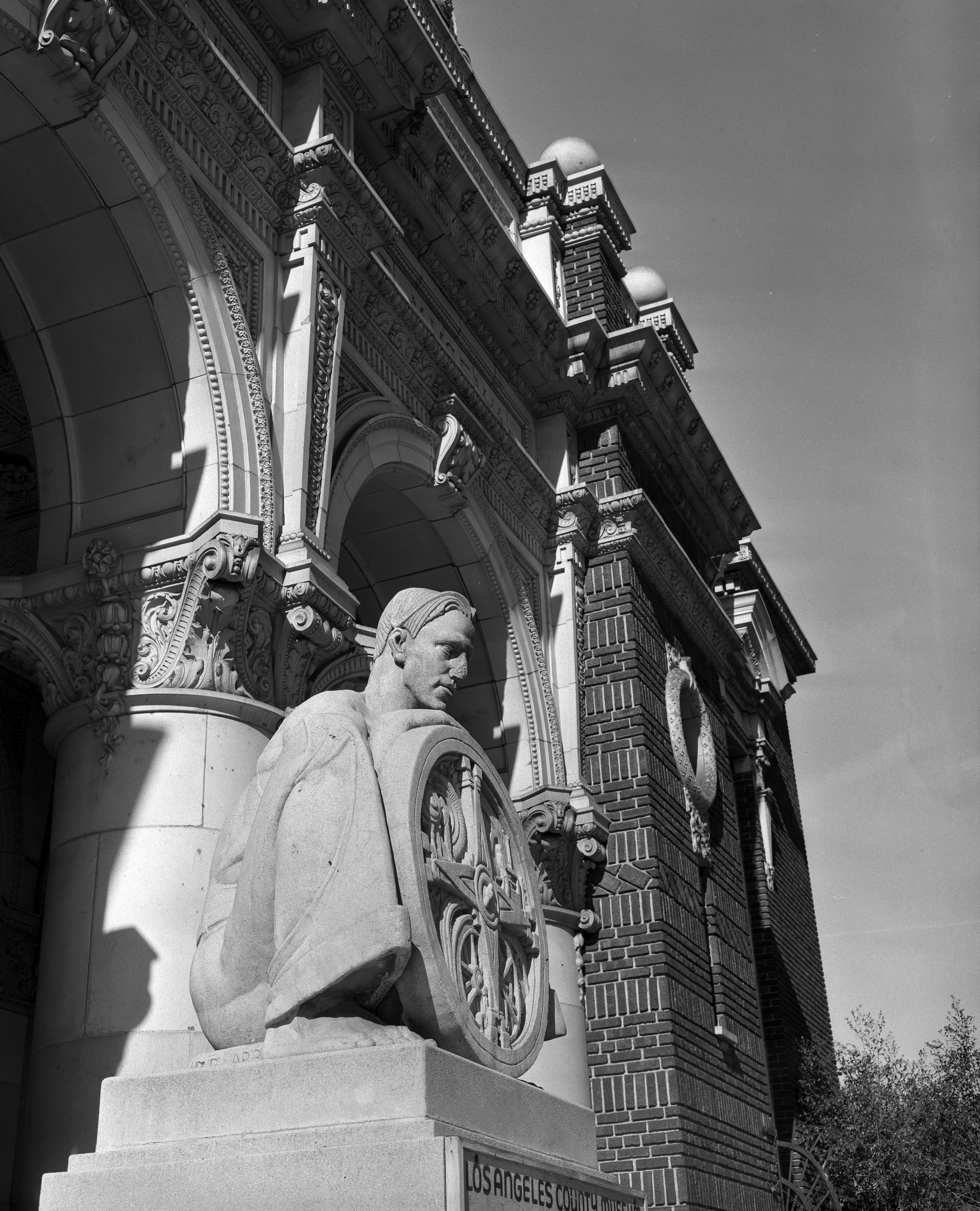 Title: Know Your City No. 49 — Architectural sculpture and façade of the east door at Los Angeles County Museum (Natural History Museum in Exposition Park). Published caption:KNOW YOUR CITY NO. 49 -- This ungracefully crouched fellow holding a wheel of industry is in front of an important door of an important building in prominent park. He never has to go to the Rose Parade. You'll find answer on Page 32, Part ll. Publication: Los Angeles Times Publication date: January 5, 1956 Notes ANSWER: This piece of unusual sculpture crouches in front of the old east door of the County Museum and he overlooks the rose garden of Exposition Park.